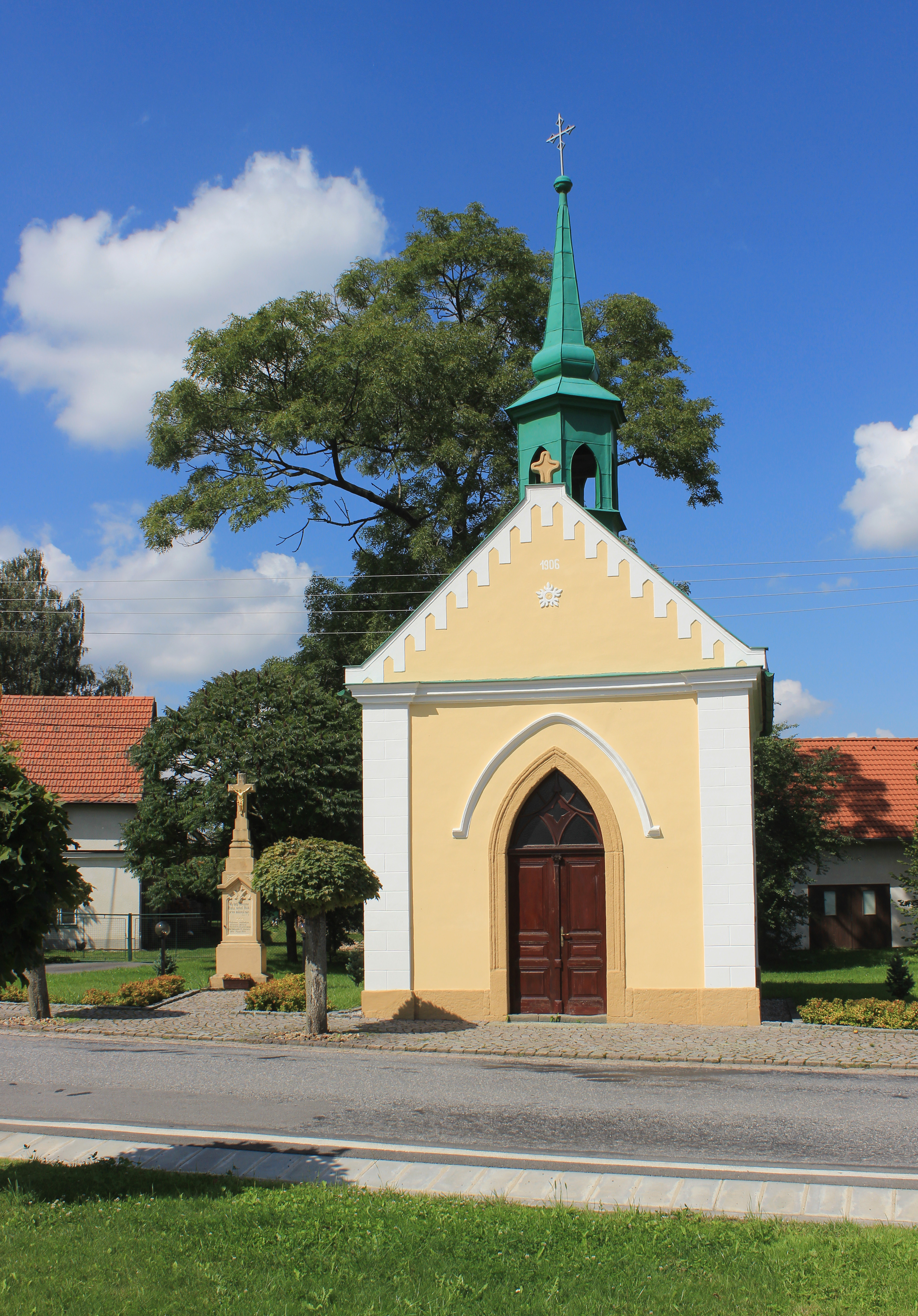 Small chapel in Nová Ves u Jarošova, Czech Republic.